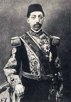 A young Mehmed Reshad